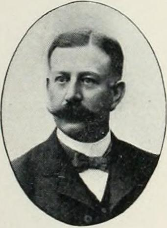 Axel Westman (1861-1935), Swedish alderman and member of the parliament (riksdagen)